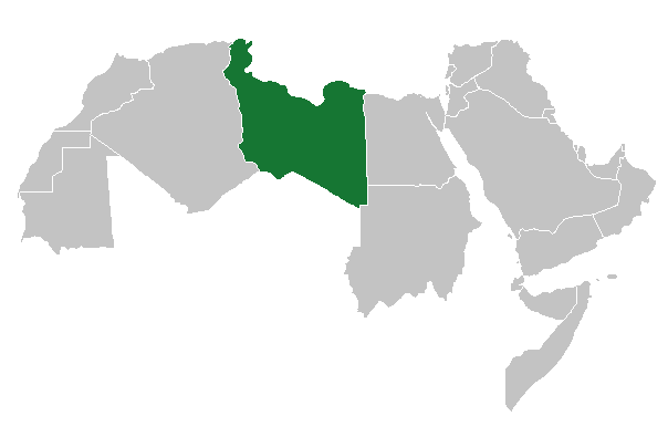 Proposed Union between Libya and Tunisia